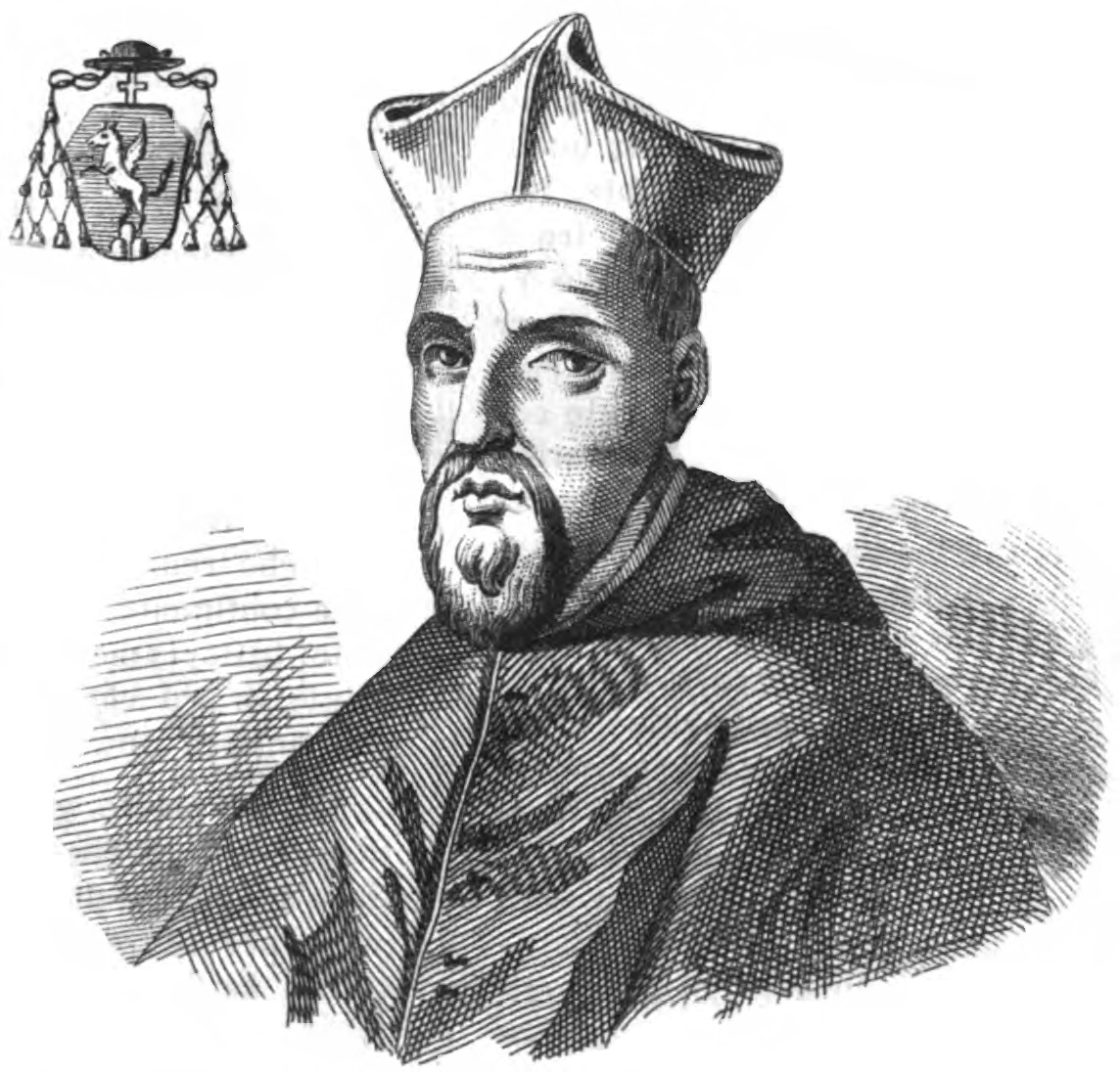 Girolamo Cardinal Rusticucci, with his coat of arms.